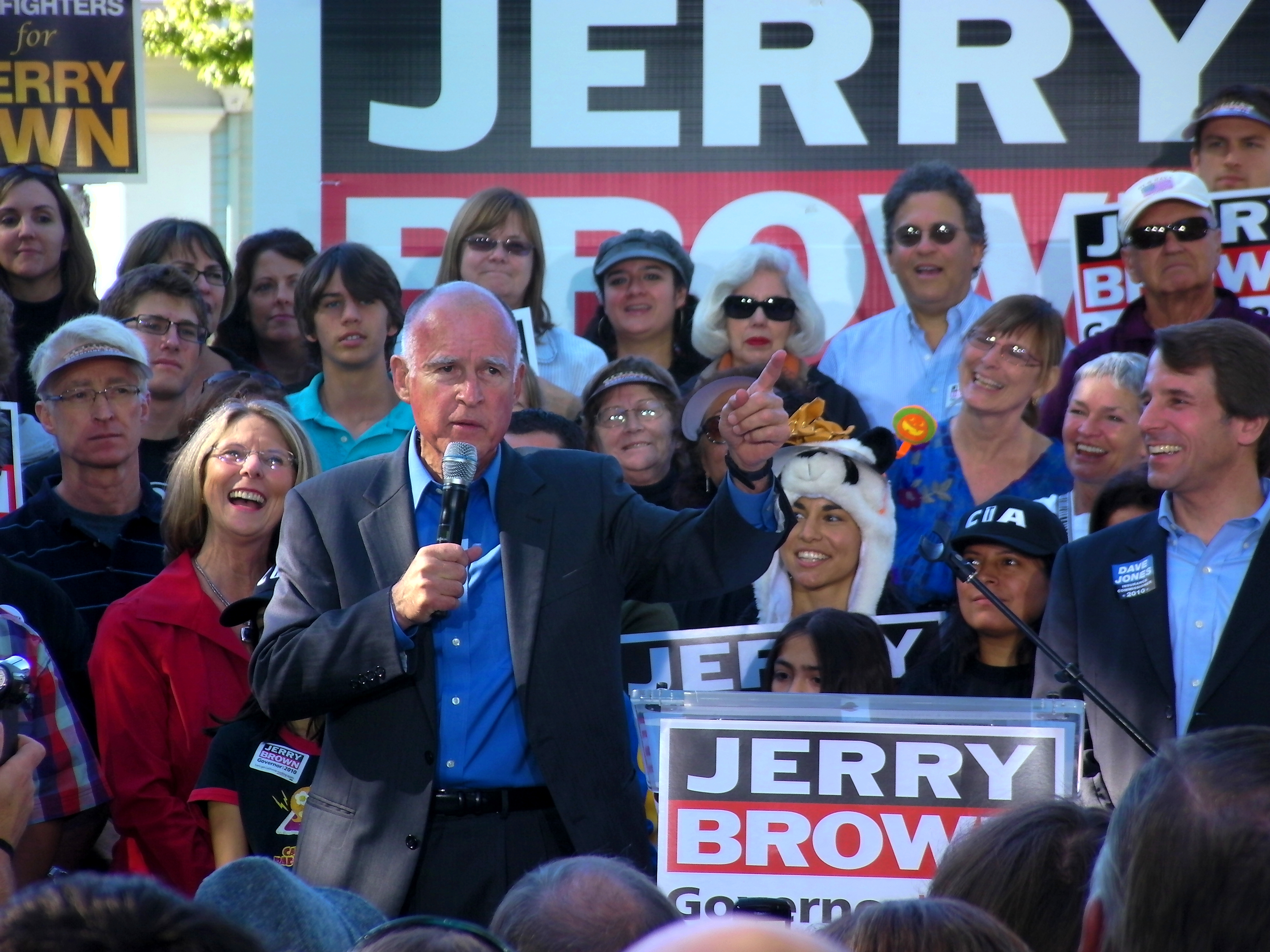 Governor Jerry Brown at a rally in Sacramento's Winn Park on Halloween, 2010